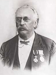 Isaac Groneman (1832-1912). Dutch physician, with special knowledge of malaria and of the Javanese kris. Photo made around 1900?